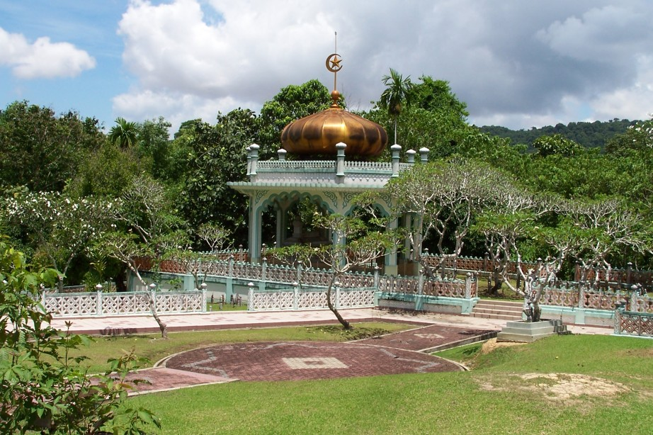 The tomb of Sultan Bolkiah near Kota Batu. He was the fifth sultan of Brunei and his reign was a golden Age in Brunei's history.